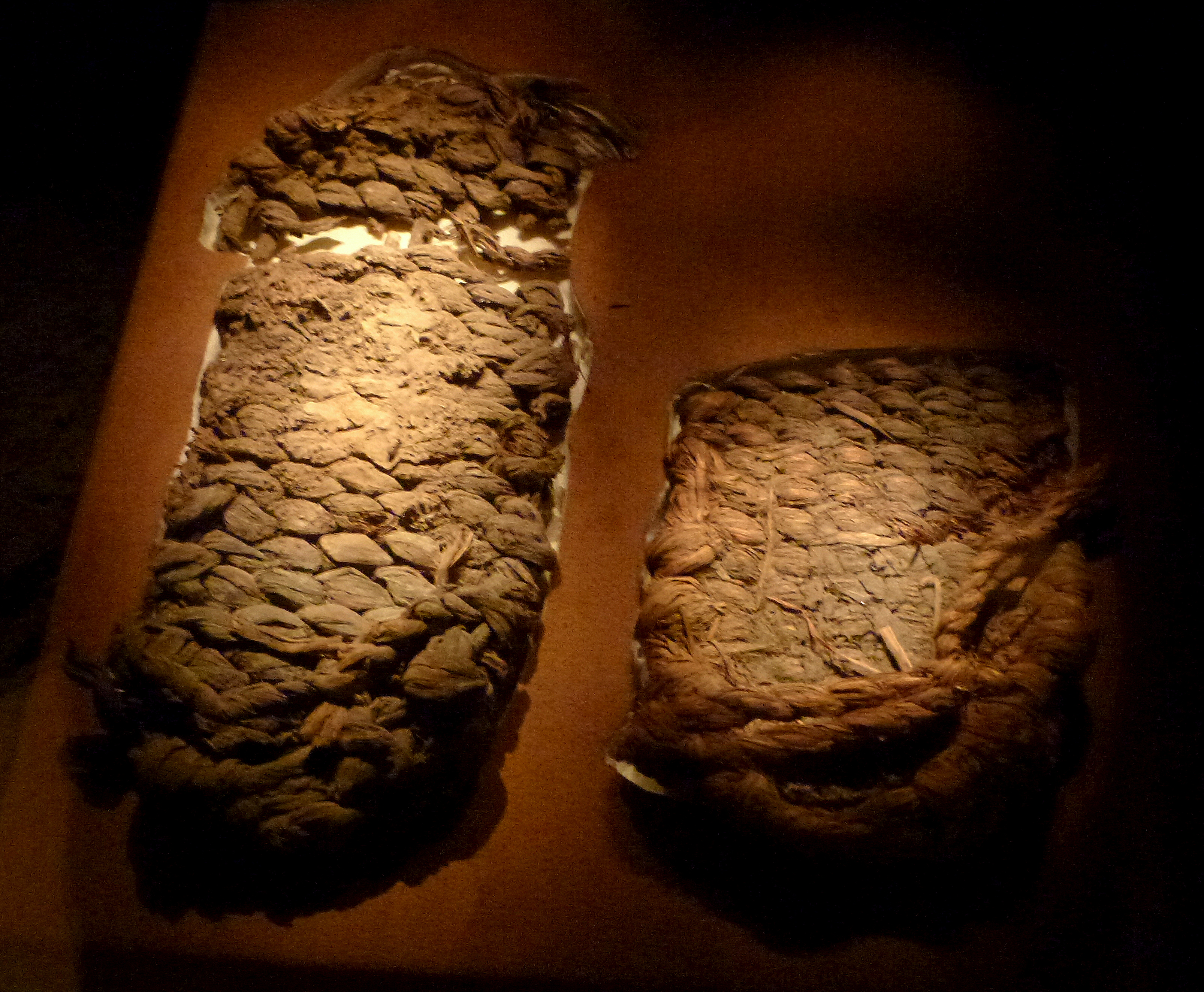 Woven sagebrush sandals unearthed from Fort Rock Cave, Lake County, Oregon, United States, on exhibit at the Oregon Historical Society Museum in Portland (catalog numbers 80-122.1 and 80-122.2). Dated at ca 9300 BP, these are some of the oldest footwear yet discovered.